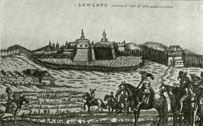 Levice castle in 1611,book ill.